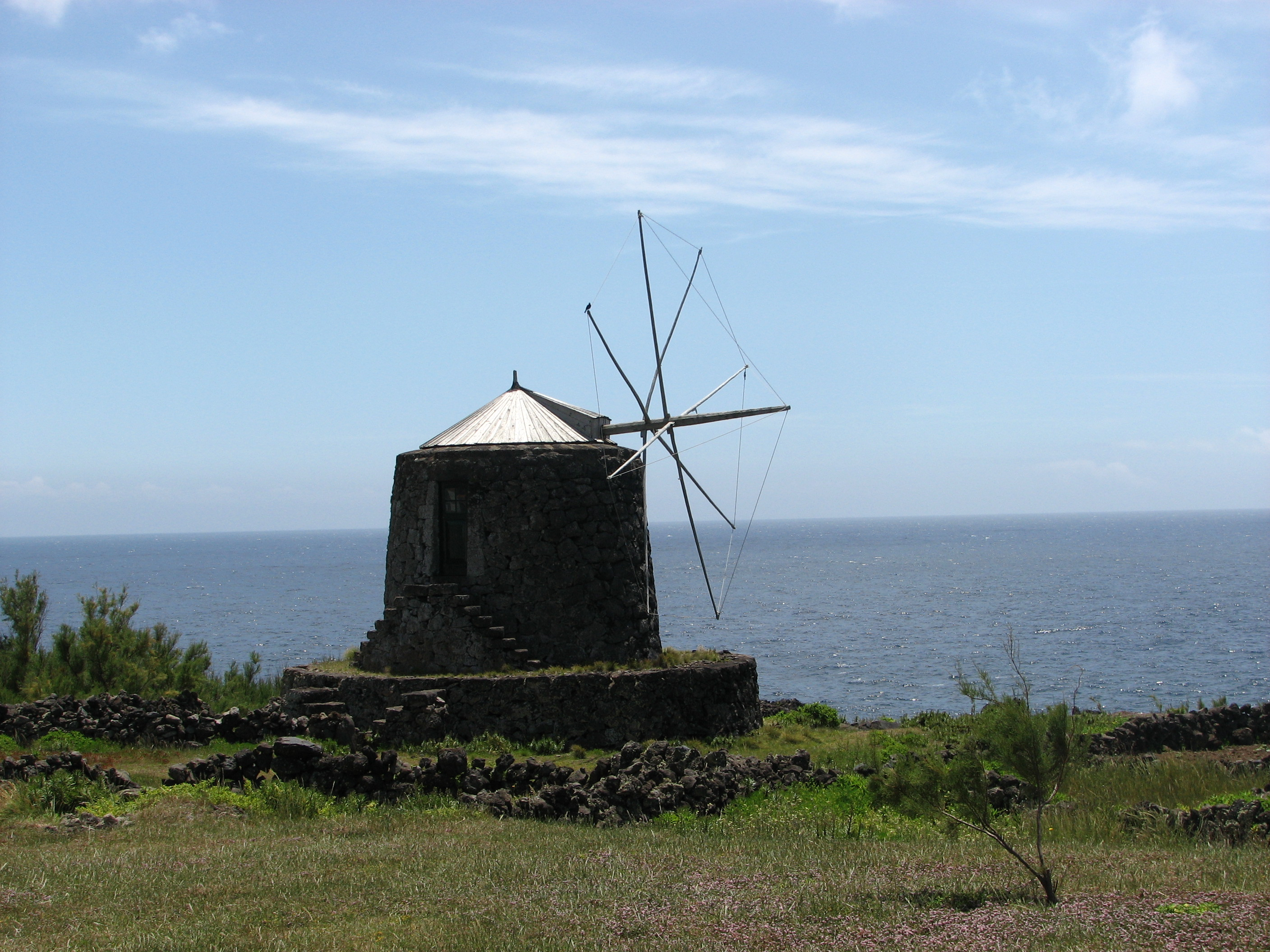 A traditional windmill from the island of Corvo, Azores (classified as cultural heritage).